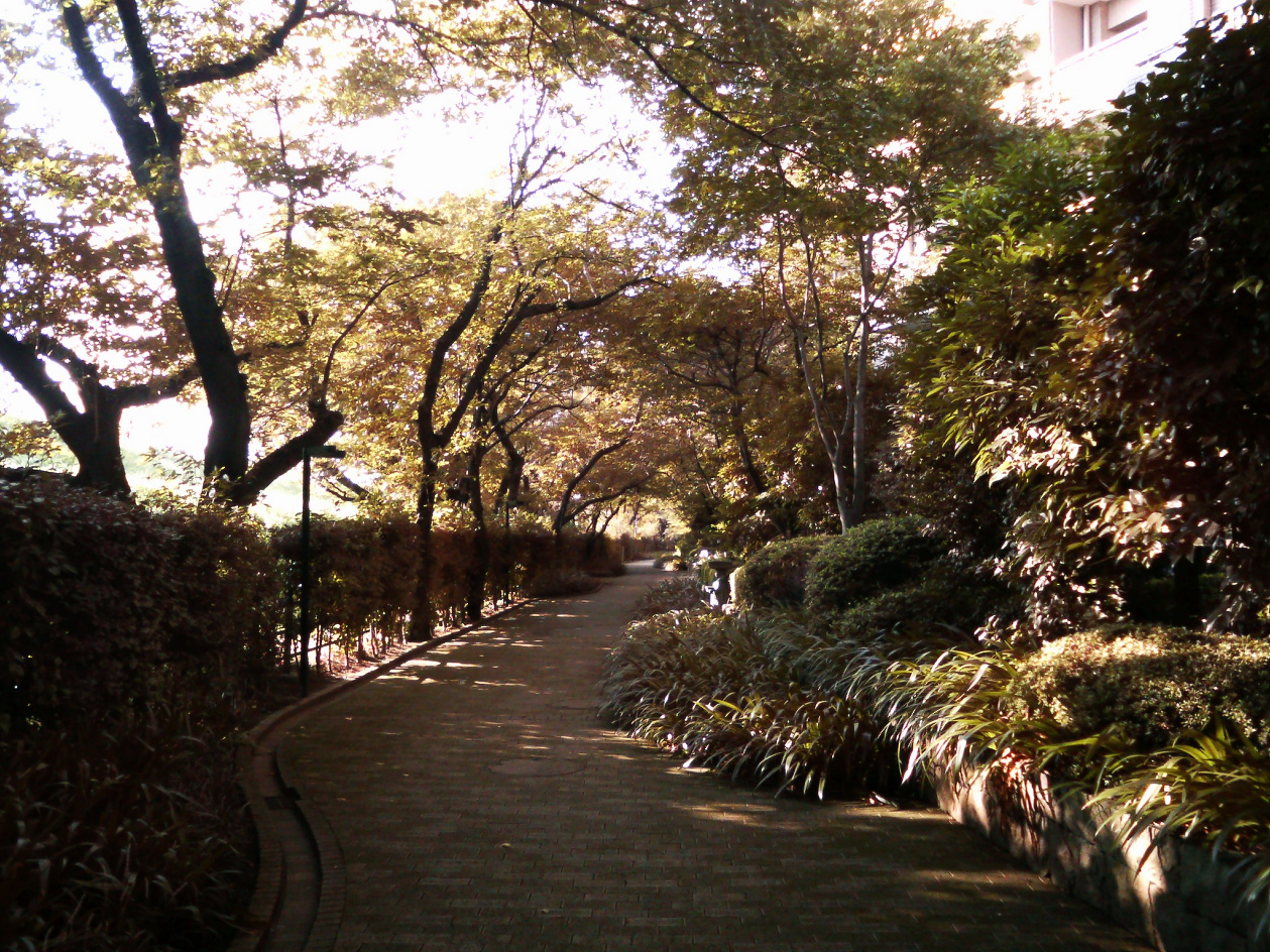 The walk way scene of park-house Tamagawa